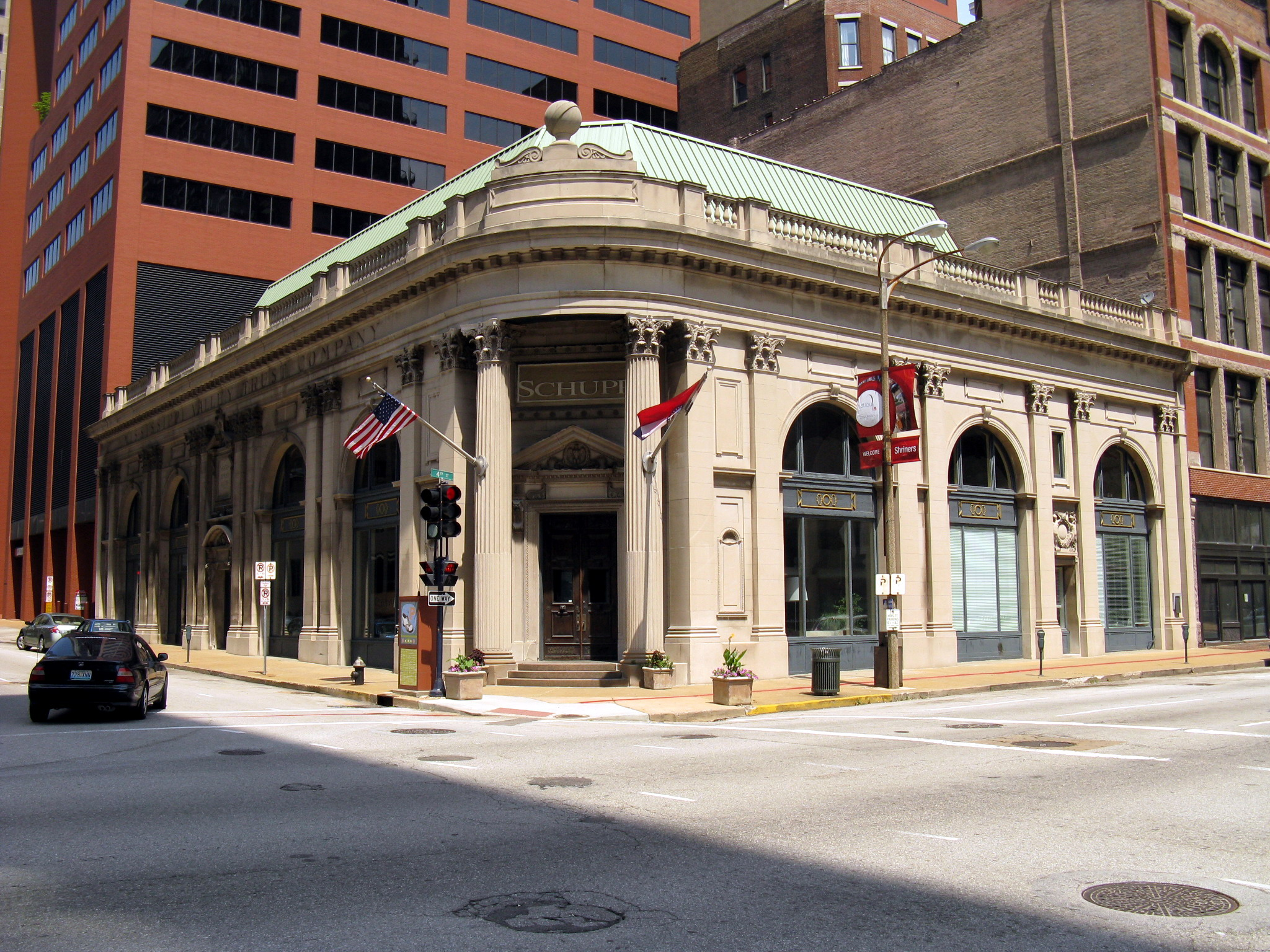 The historic bank building located at N.4th and Pine Streets. Built in 1896